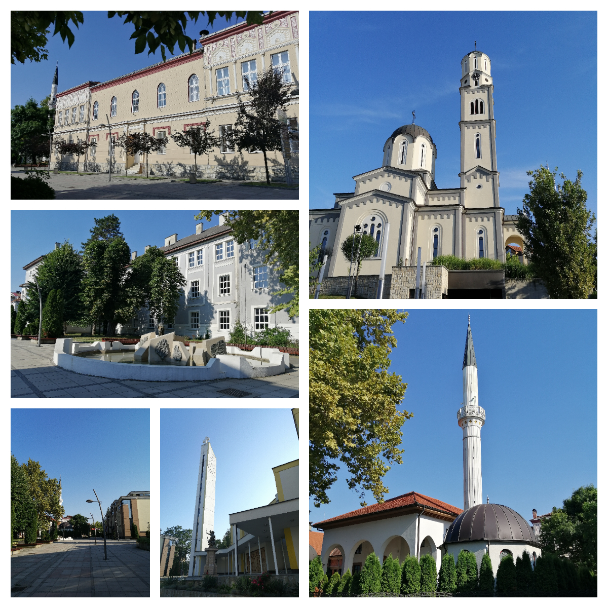 Photo collage of Derventa.